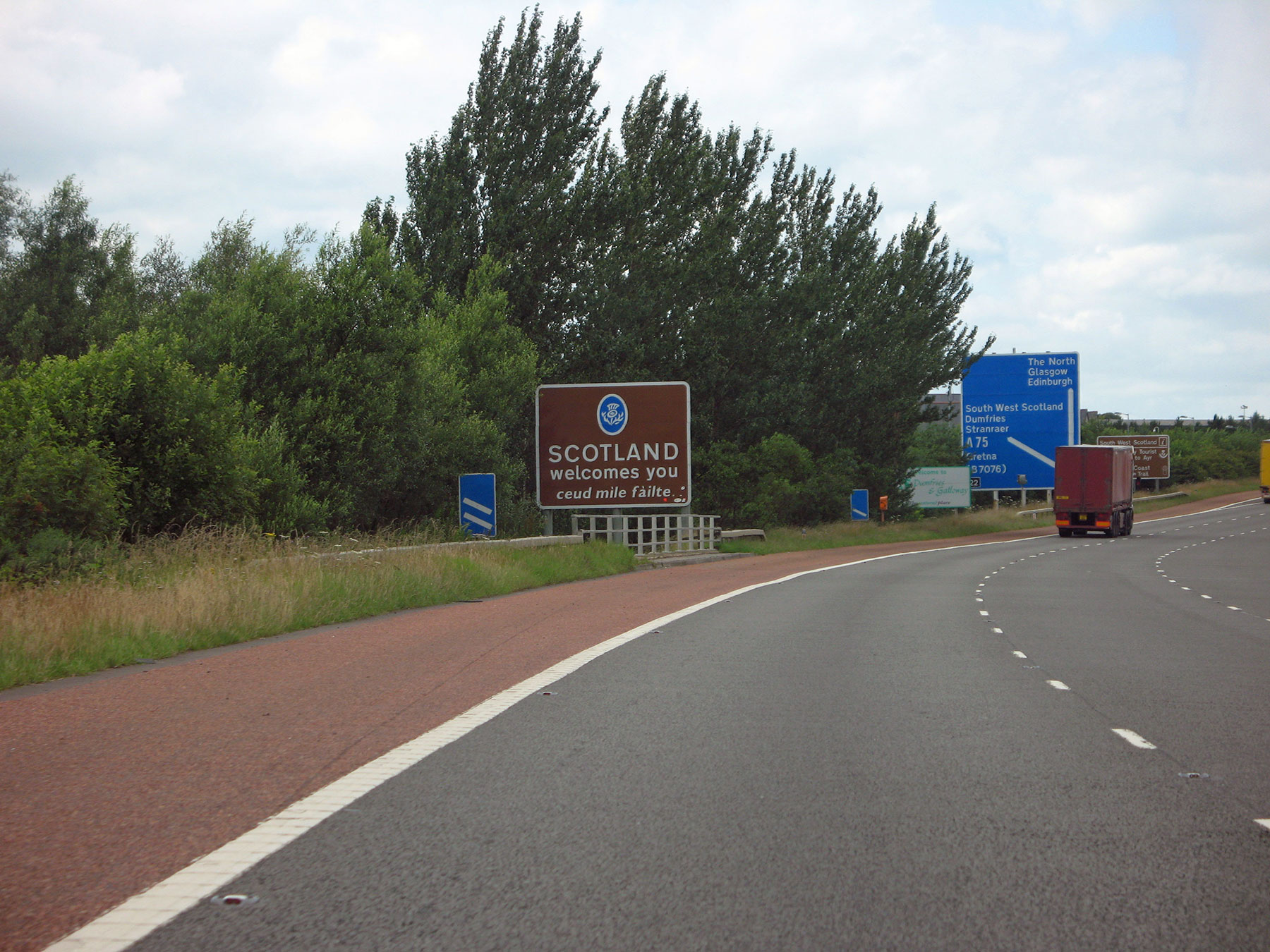 The Anglo-Scottish border from England on the A74 road.